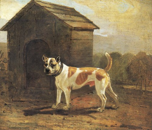 Dustman, a Bull and Terrier dog, property of William Disney Esq. "DUSTMAN is a celebrated dog, the property of Wm. Disney, Esq. and of a breed between a bull and a terrier, the best of any to attack that formidable animal, the badger. The breed of dogs of this description, has been much encourage of late, and held in great estimation, as being more staunch than the terrier, and not too powerful for the badger."(The Sporting Magazine, 40 v. April, 1812)